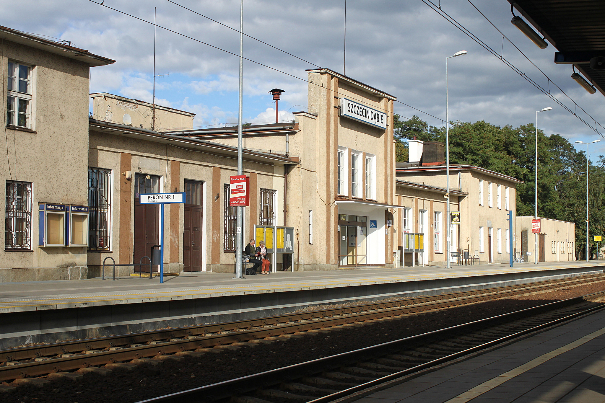 Szczecin Dąbie train station.